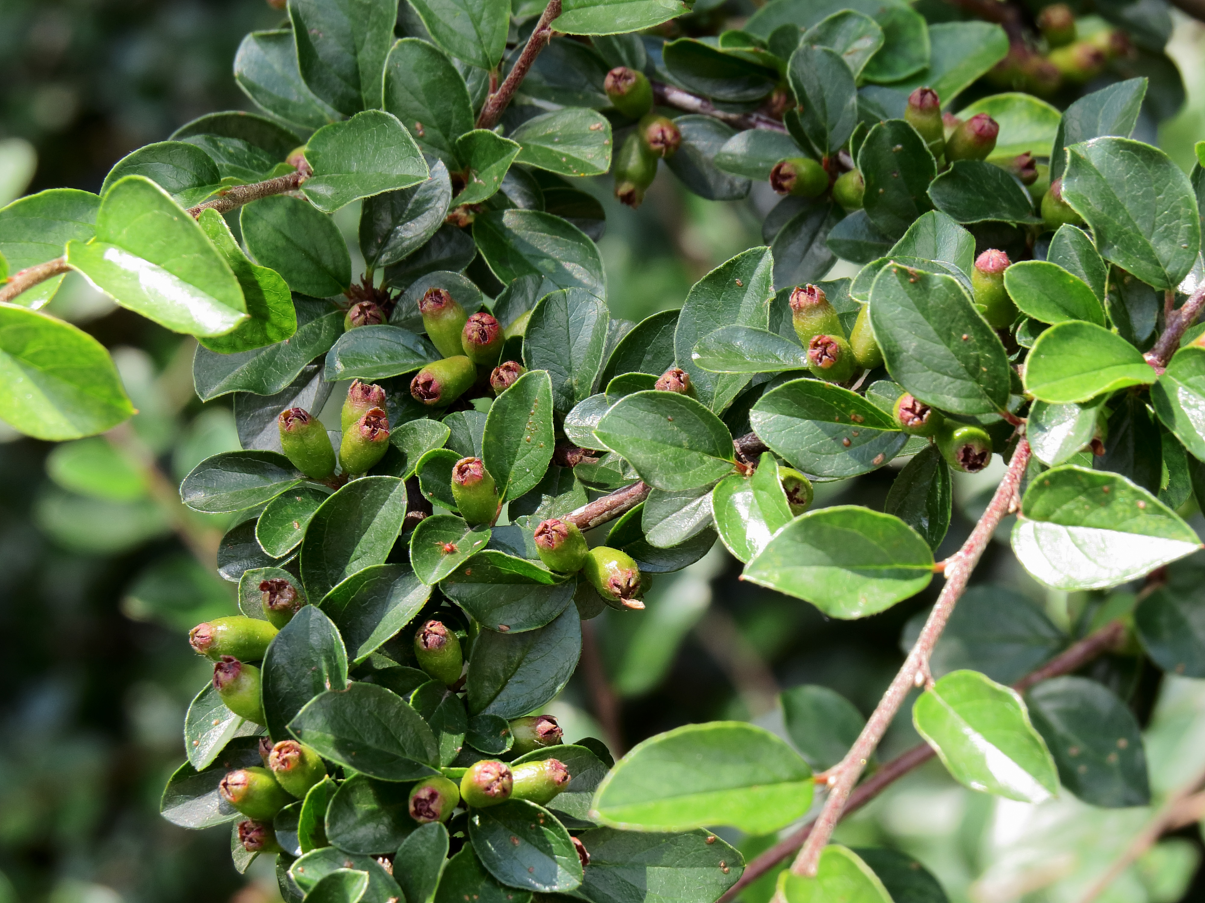 Cotoneaster divaricatus in Fomin botanical garden, Kiev, Ukraine